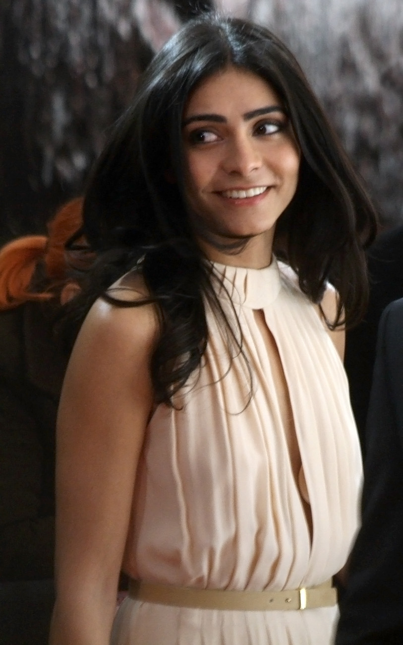 Pegah Ferydoni, Deutscher Filmball 2012 at Hotel Bayerischer Hof in Munich.